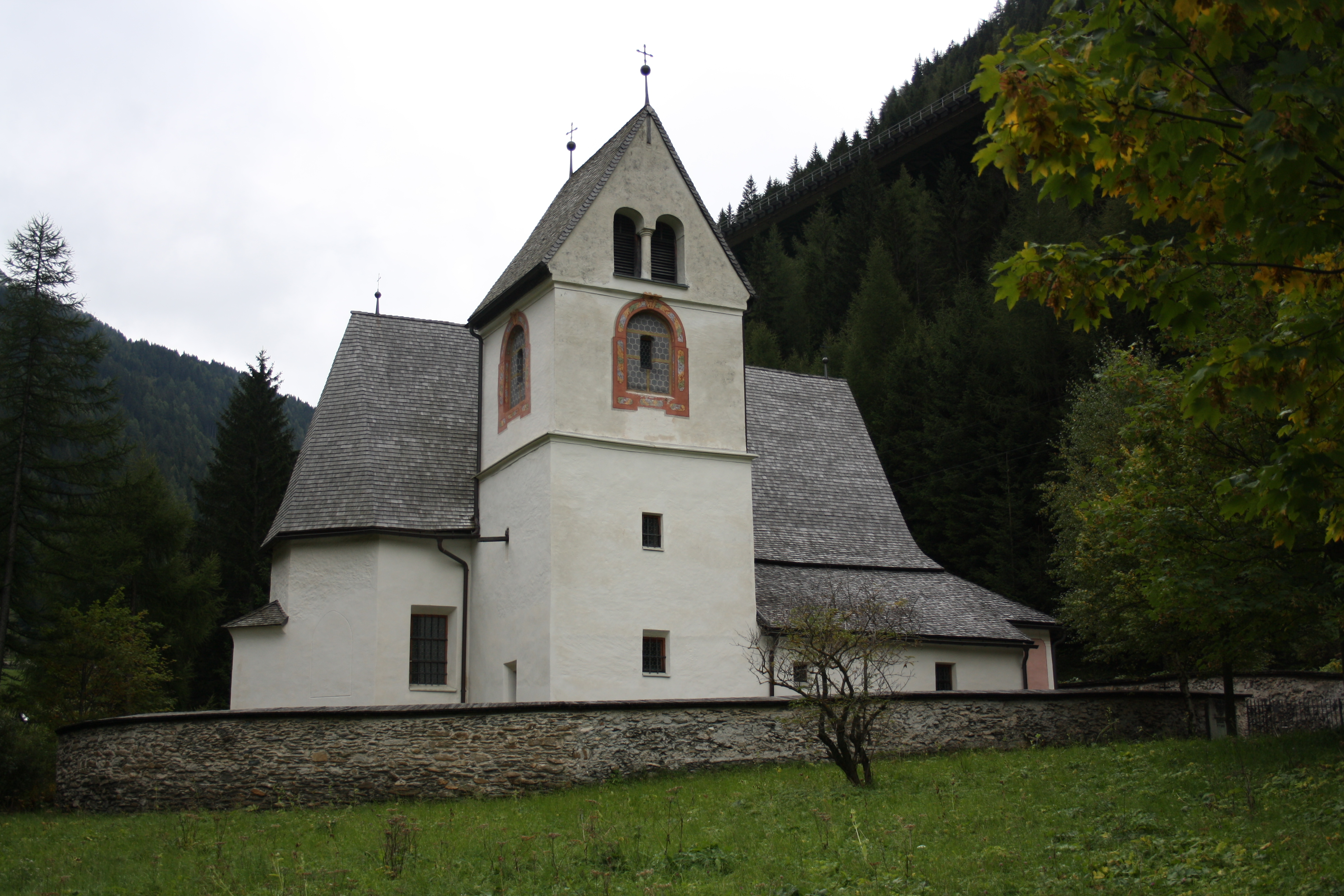 Austria, Tyrol (state), Gries am Brenner. Lueg "St. Christoph and Sigmund".